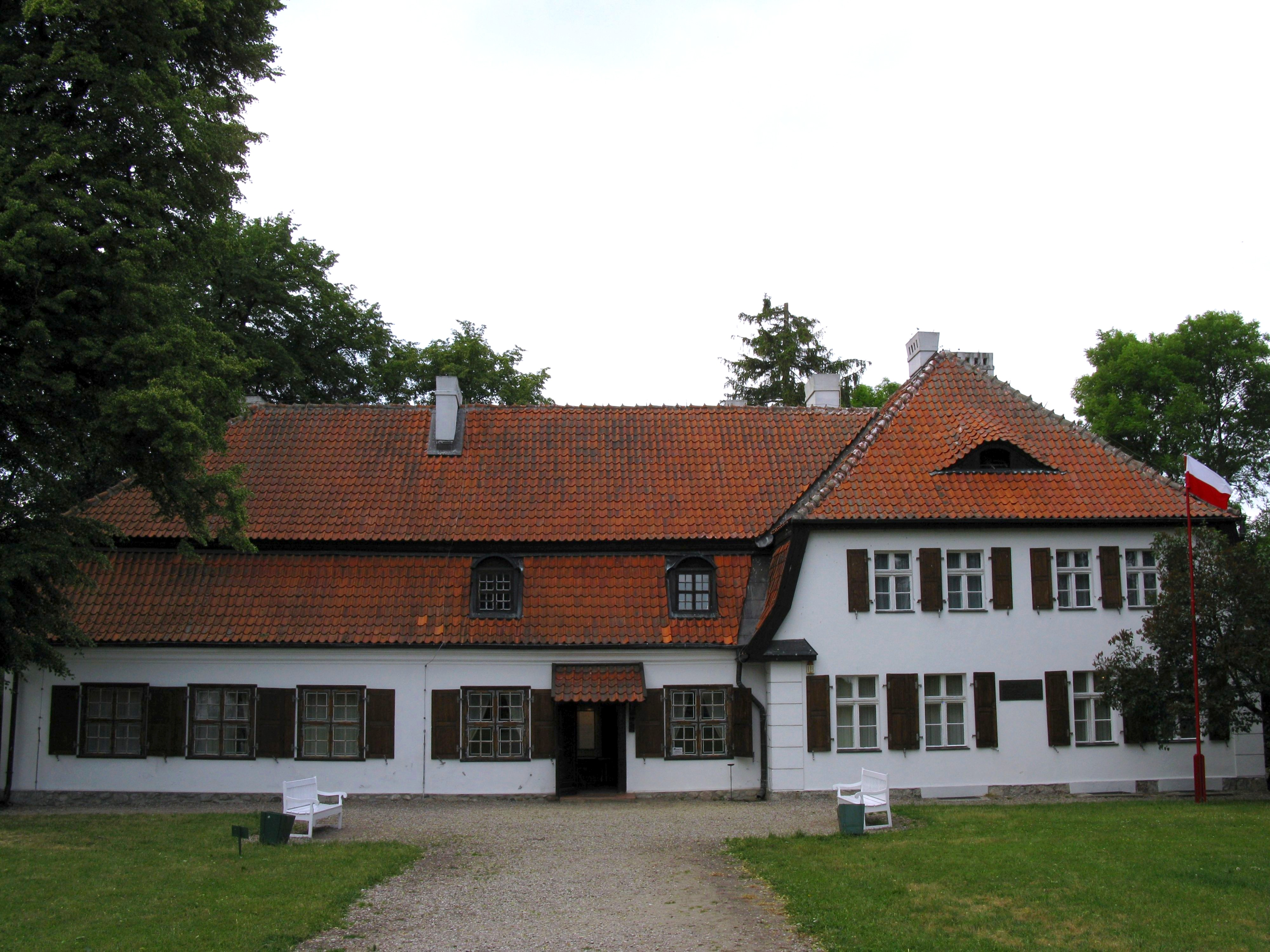 Manor House of Józef Wybicki in Będomin